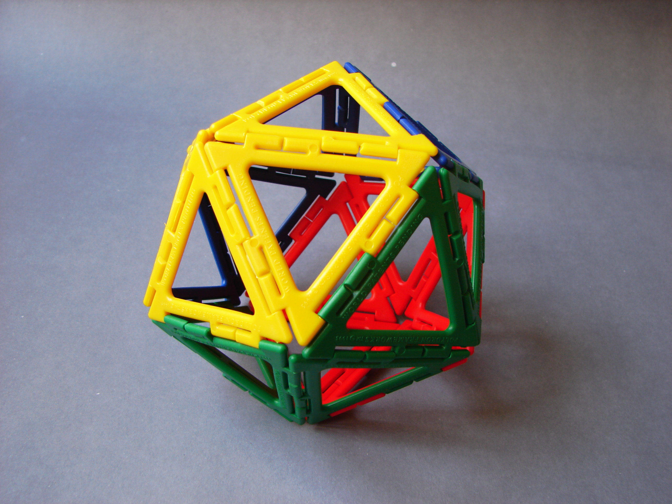 Polydron, Geometrical toys: ICOSAHEDRON